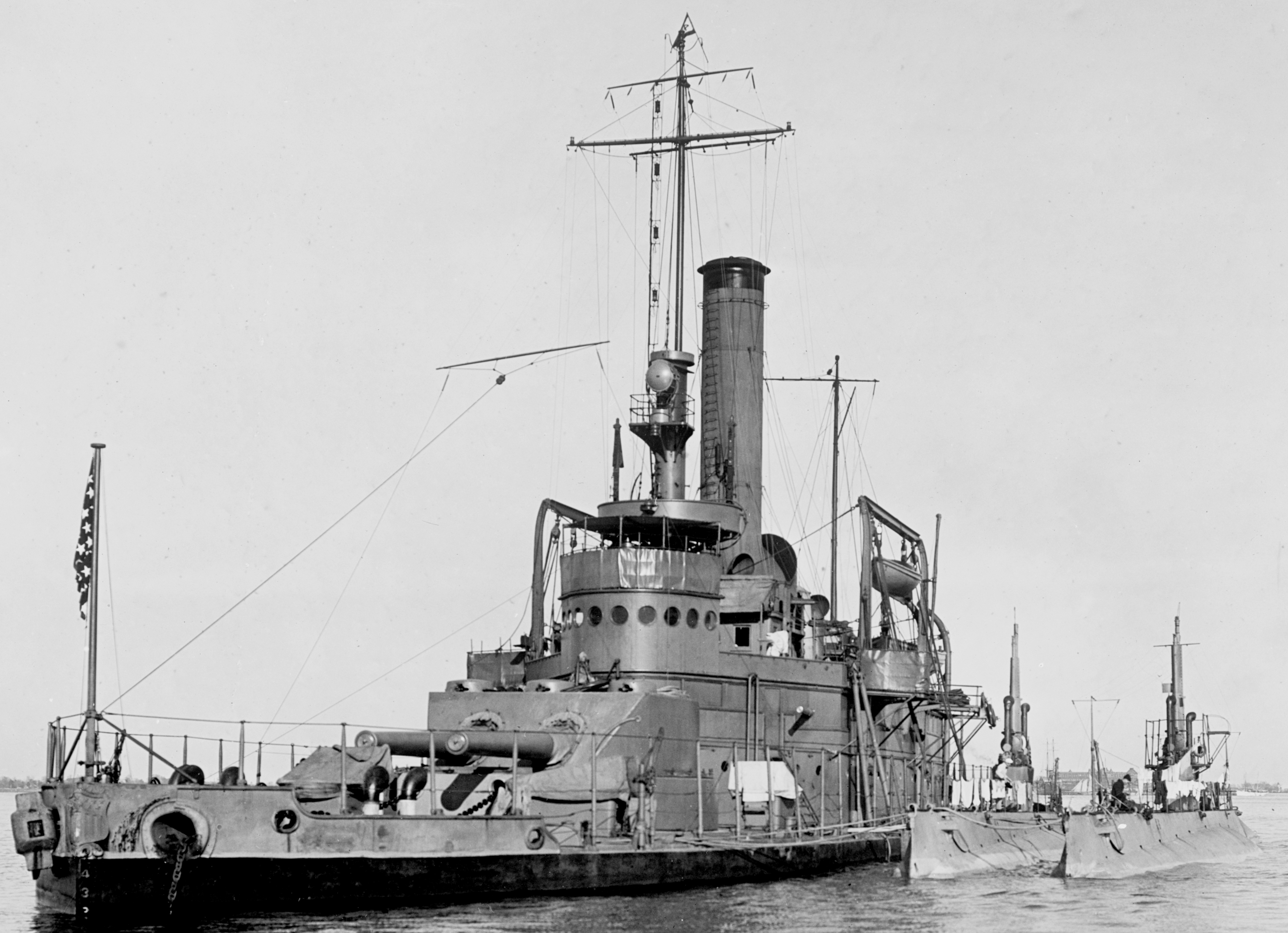 A cropped image of the USS Florida (BM-9) in Hampton Roads, 10 December 1916. Original photo from NARA, Record Group 19-N, Box 33. She is seen here after being rechristined Tallahassee tending two US Navy submarines; K-5 (SS-36) and K-6 (SS-37).